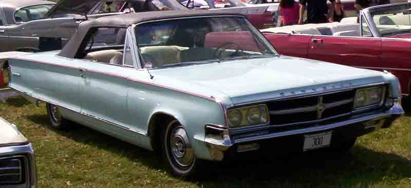 Chrysler 300 Convertible